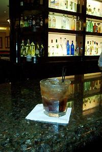 Cuba Libre.